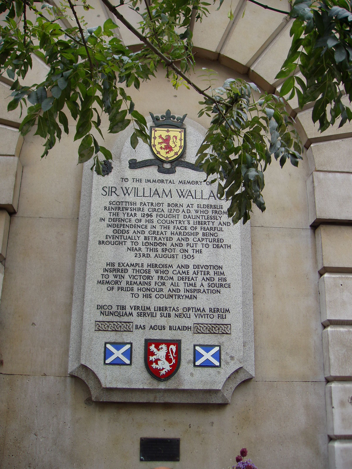 Wallace Memorial @ St Bartholomew's Hospital, London, England very near to where William Wallace was executed in Smithfield